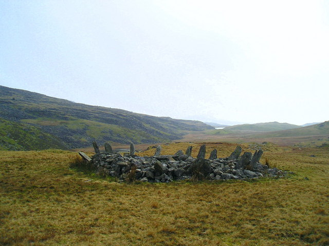 Bryn Cader Faner Near Maes y Neuadd Hotel.